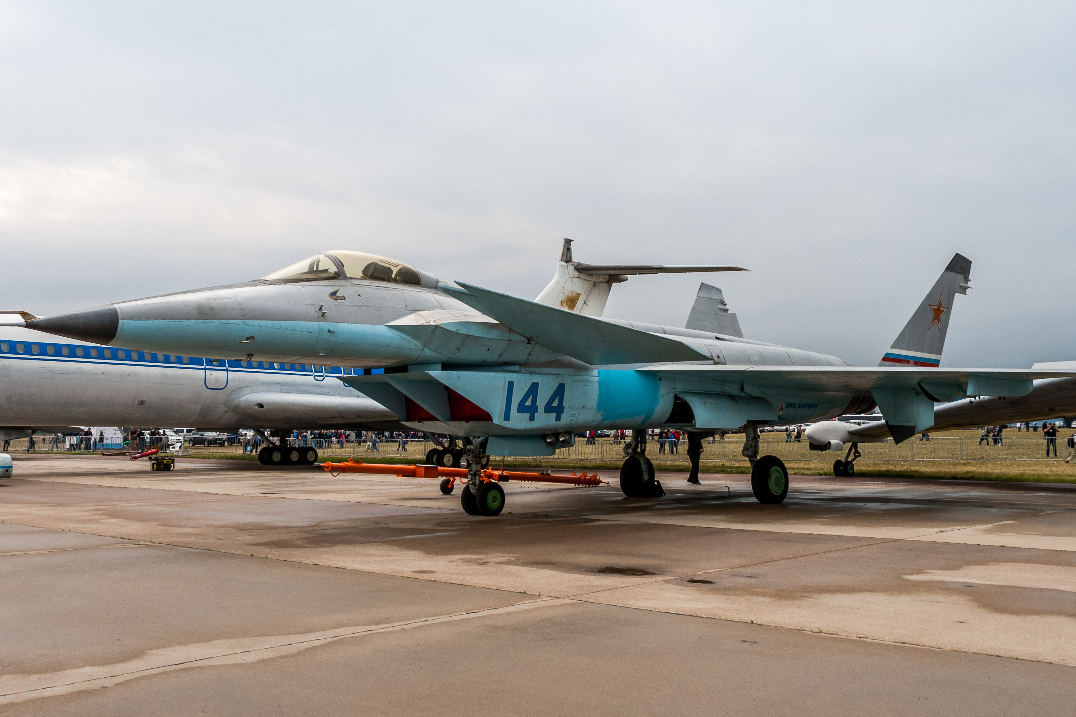 Mikoyan Project 1.44 on display at MAKS 2015